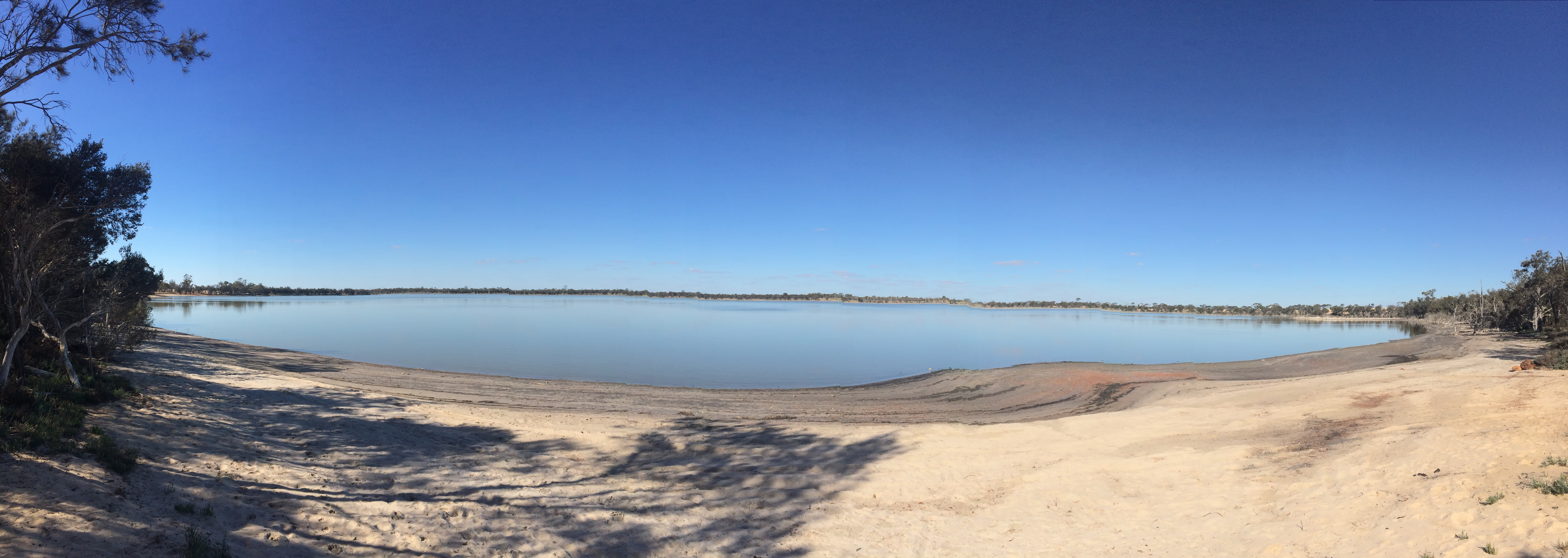 Lake Ewlyamartup panorama 2018